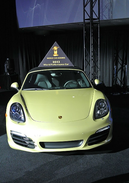 NYIAS 2013 | World Car Awards @ New York Autoshow ____________ Please feel free to use this image for FREE under the Creative Commons (CC) licence. However, if you use the image, pls set a backlink to and give credit as following:"Image: ". Thanks For highres images or any other inquiries pls .